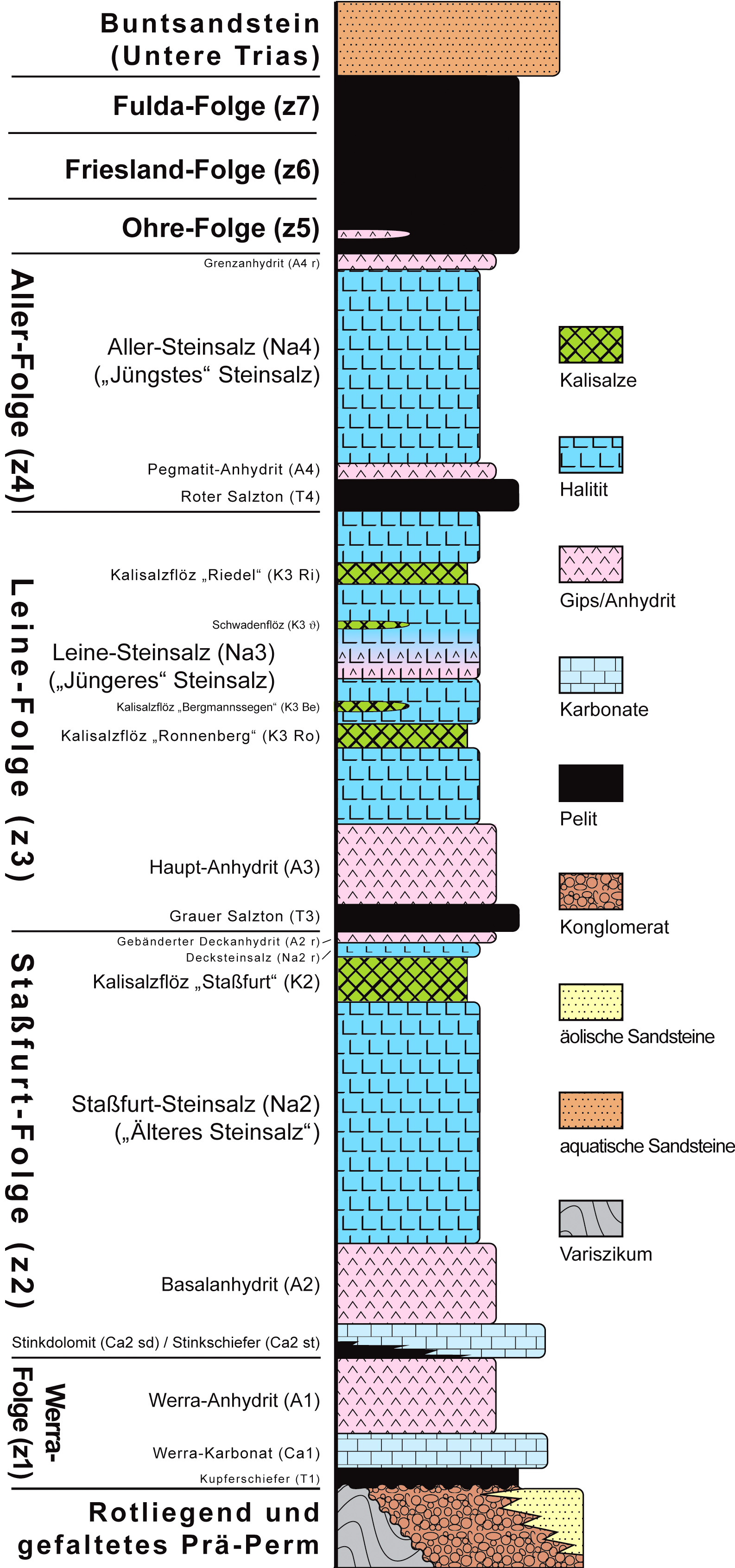 Generalized, schematic stratigraphic column of the Zechstein series of the area north of the Hartz mountains (in outcrop and subcrop), southern part of northern Germany (Lower Saxony and Saxony Anhalt).